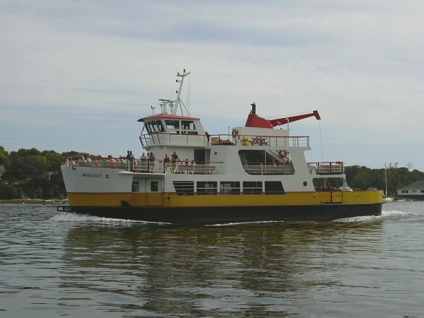 Casco Bay Lines Ferry Maquoit II passing Peaks Island, summer of 2006.